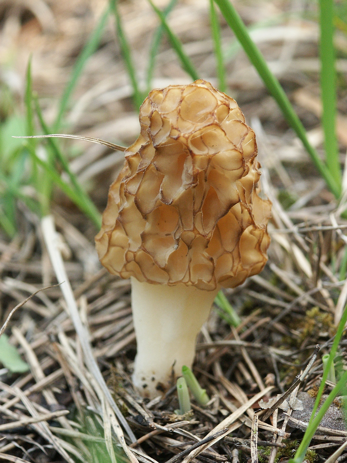 Morchella esculenta, Tauberland, Germany